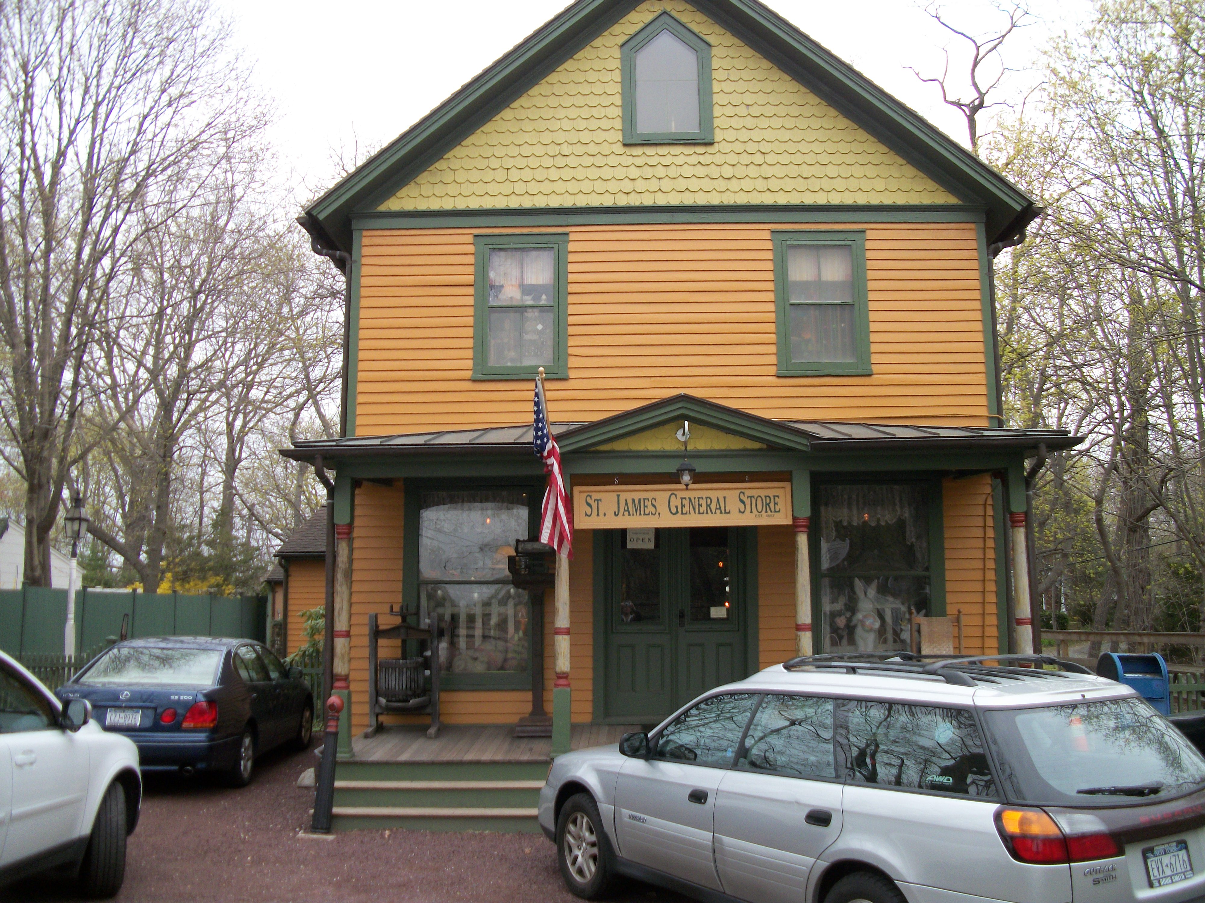 The St. James General Store, a contributing property to the Saint James District in Saint James, New York Object location40° 53′ 02″ N, 73° 09′ 46″ W